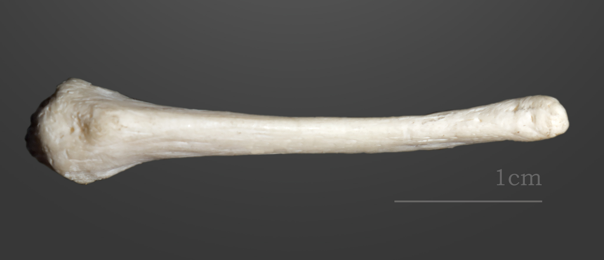 Eurasian beaver - Penis bone Former collection of Armand de Montlezun (1841-1914)